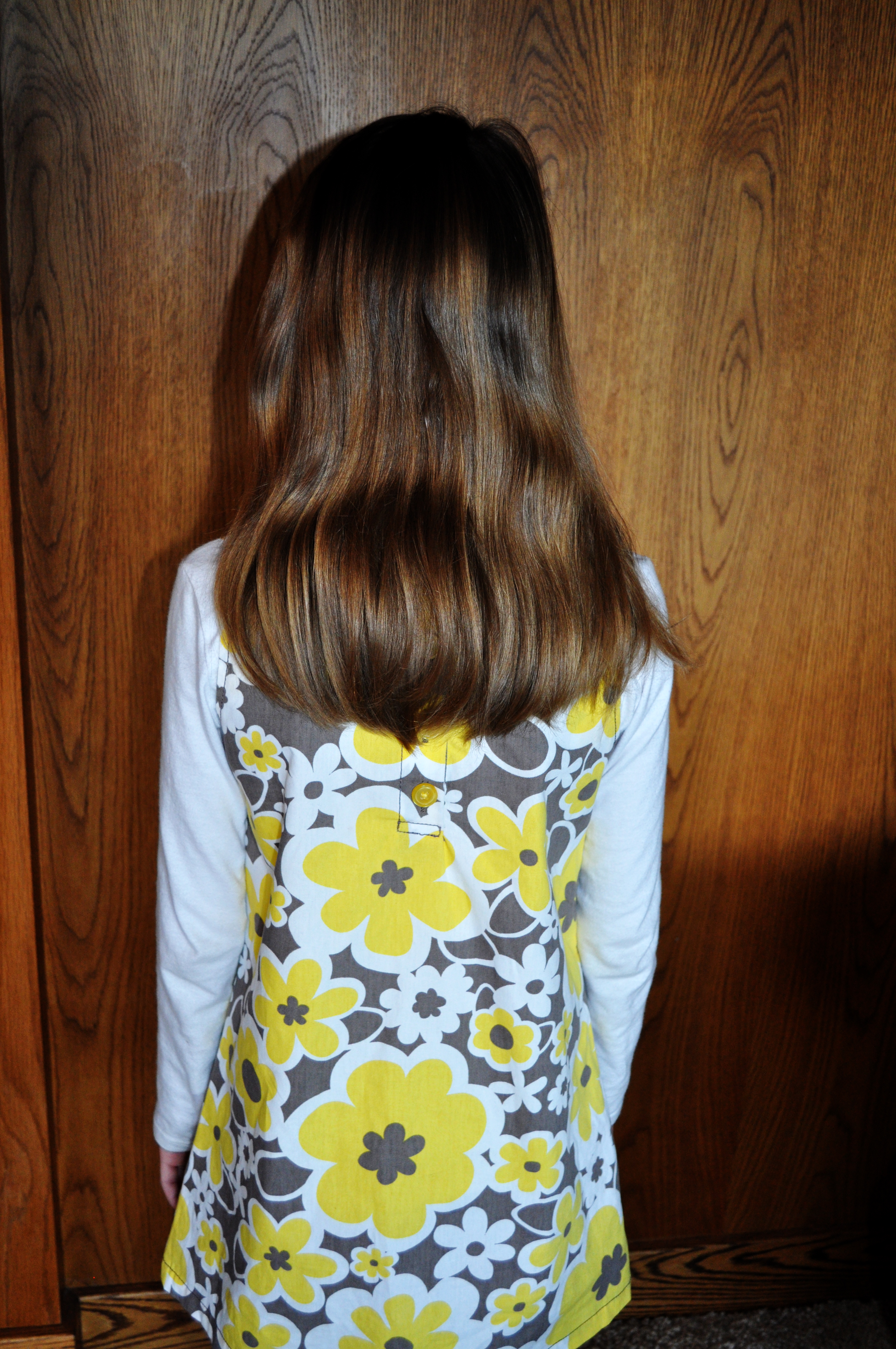 Month number ONE